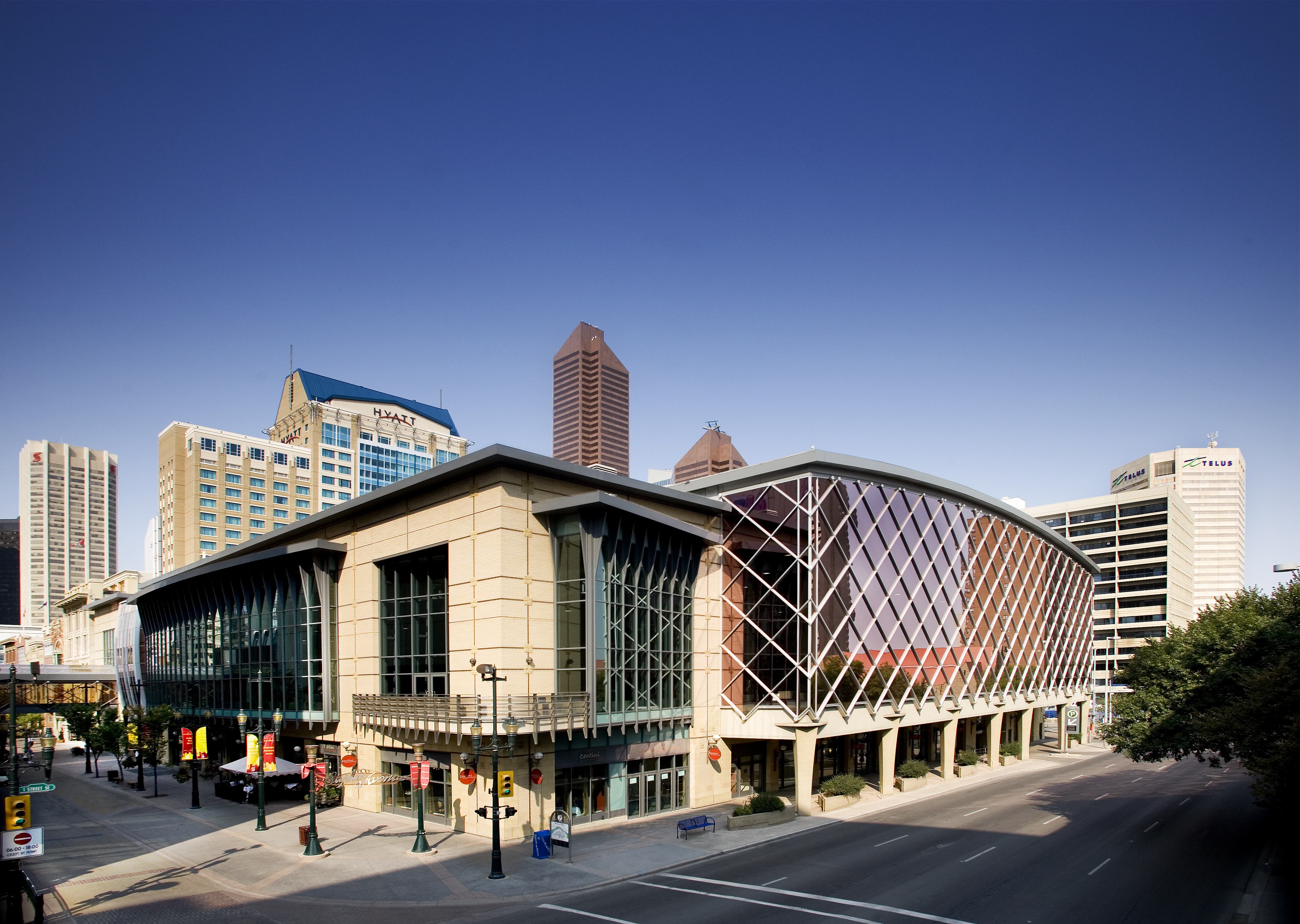 View from Stephen Avenue Walk (8th Avenue)